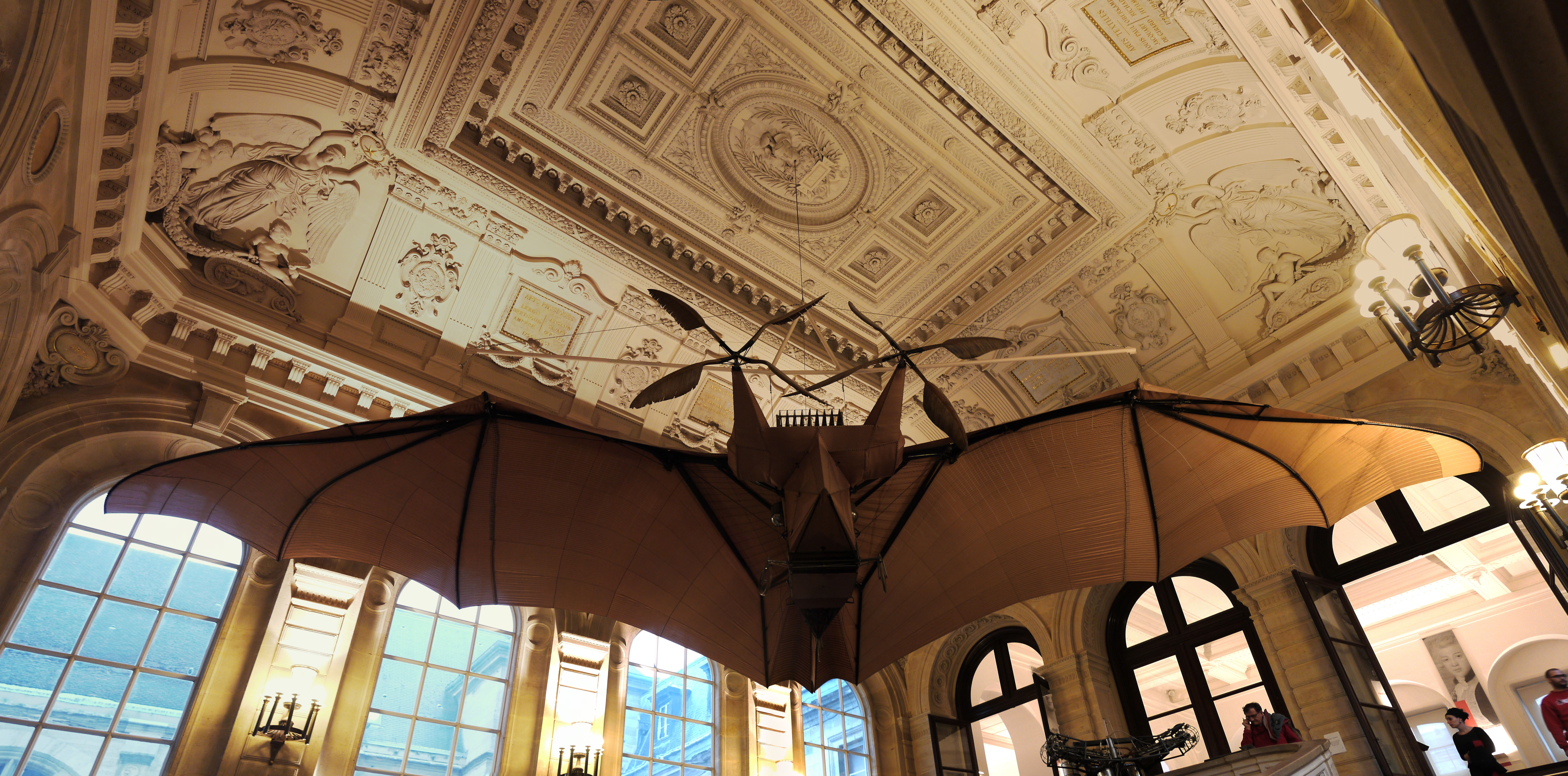 Avion III, a primitive aircraft by Clément Ader, which may have briefly hoped above ground in 1897. The aircraft is currently hung from the ceiling in the Musée des arts et métiers in Paris.